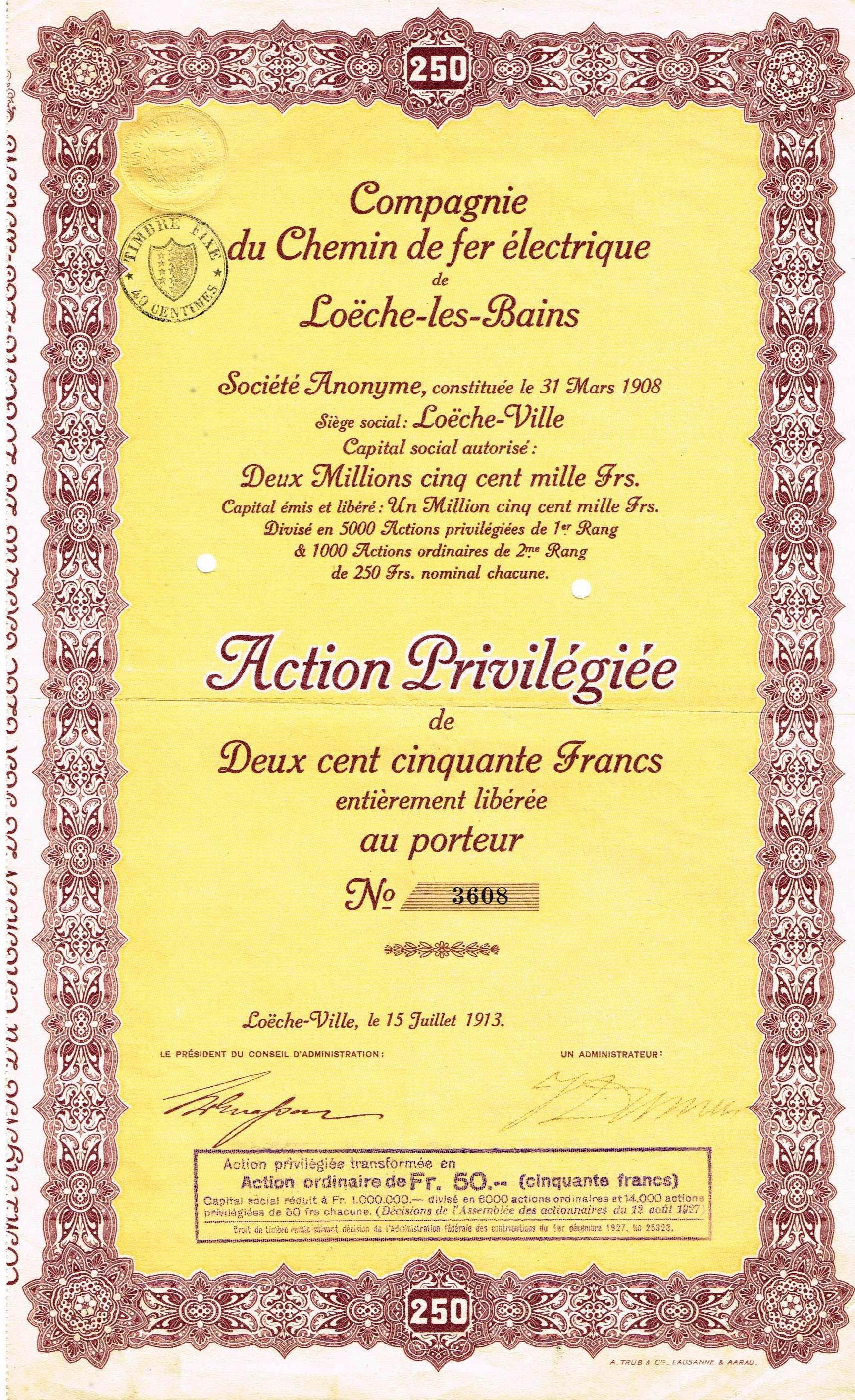 Share of the Compagnie du Chemin de fer électrique de Loèche-les-Bains, issued 15. July 1913